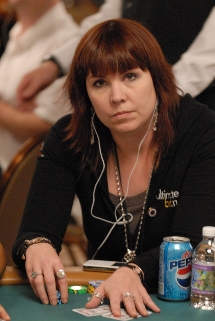 Annie Duke at the 2007 World Series of Poker